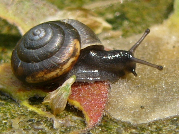 live specimen of Trochulus hispidus (Trichia hispida). Locality: garden in Táboritů street in Olomouc, the Czech Republic.